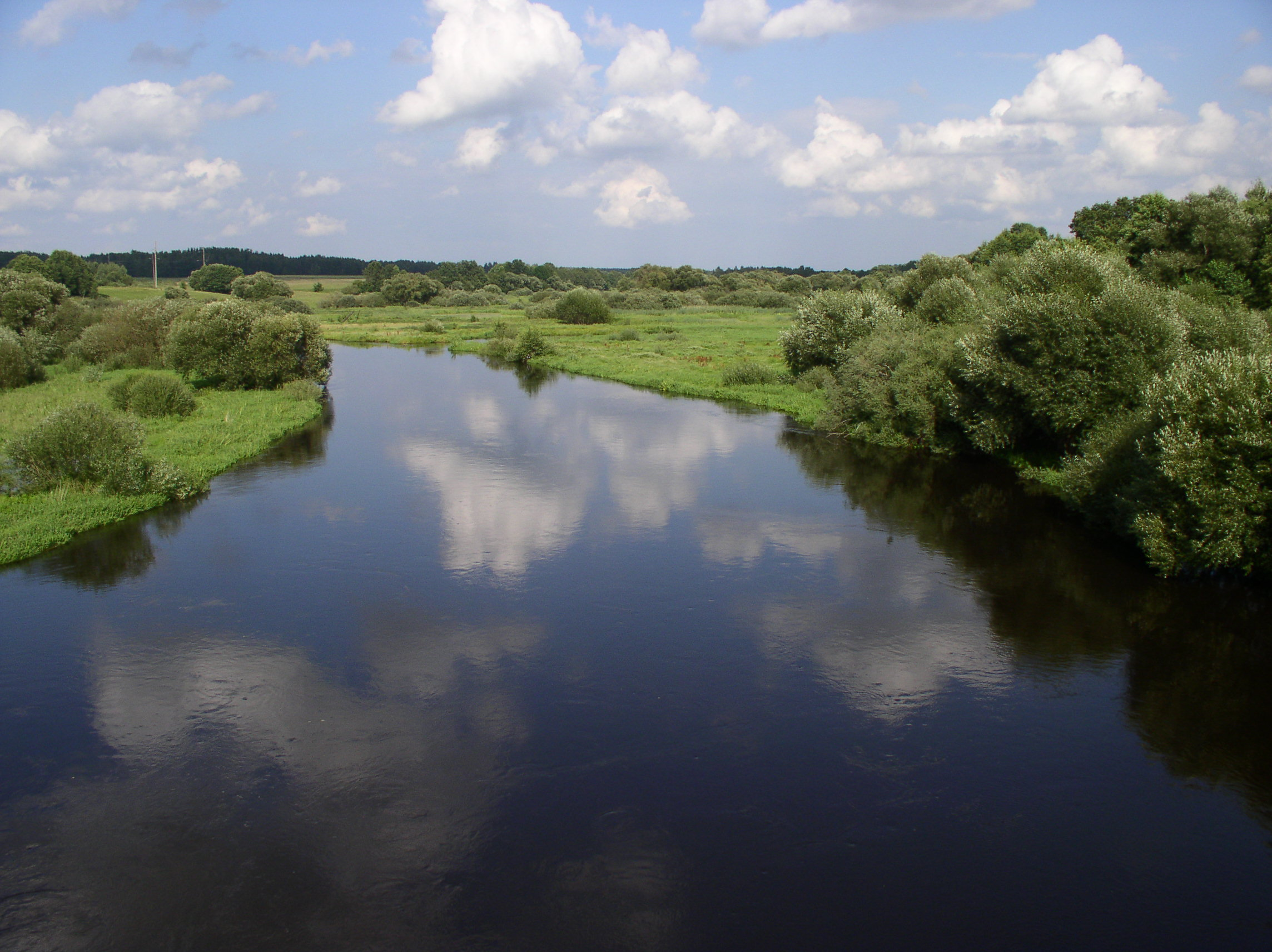 Svislach River, Belarus.